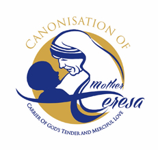 Logo_Madre_teresa.jpg